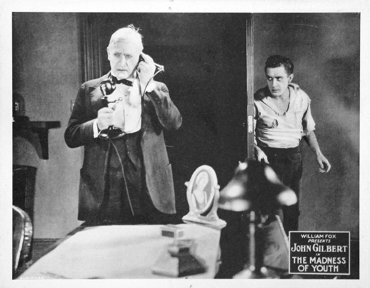 Lobby card for the American drama film The Madness of Youth (1923).